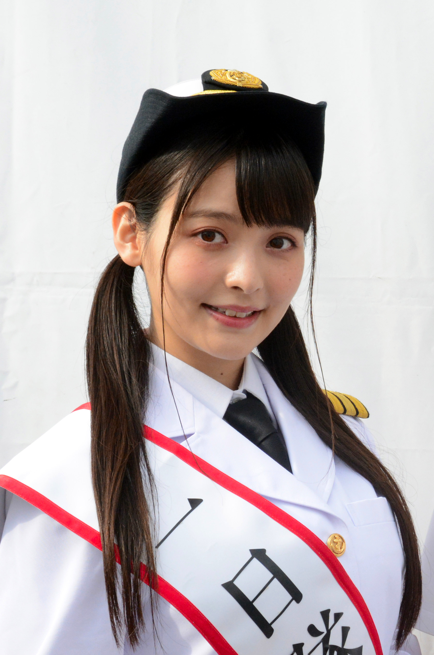 Sumire Uesaka, Honorary Commander of the Escort Division 1 for one day, Escort Flotilla 1, Fleet Escort Force, Self Defense Fleet, Maritime Self-Defense Force, met Yoshio Higuchi, Band Master of the Maritime Self-Defense Force Band Tōkyō, at the Fleet Week in Yokohama City, Kanagawa Prefecture on October 6, 2019.